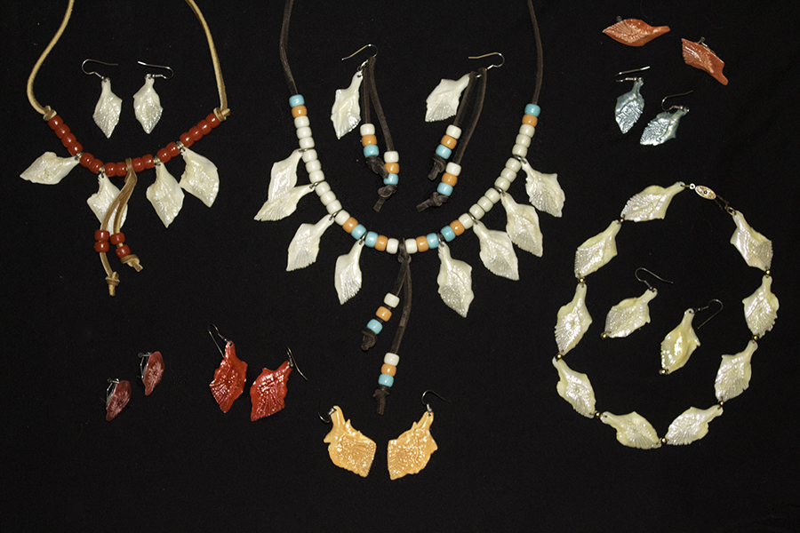 Jewelry made from the hard ganoid scales of alligator gar.